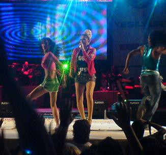 Demet Akalın Samsun concert 2